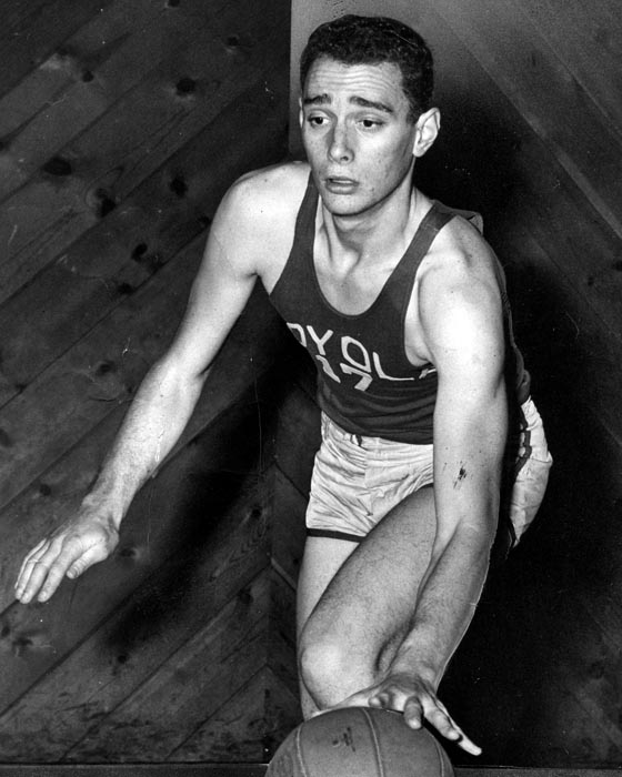 Professional basketball player Normie Glick in college as a member of the Loyola Marymount University men's basketball team.